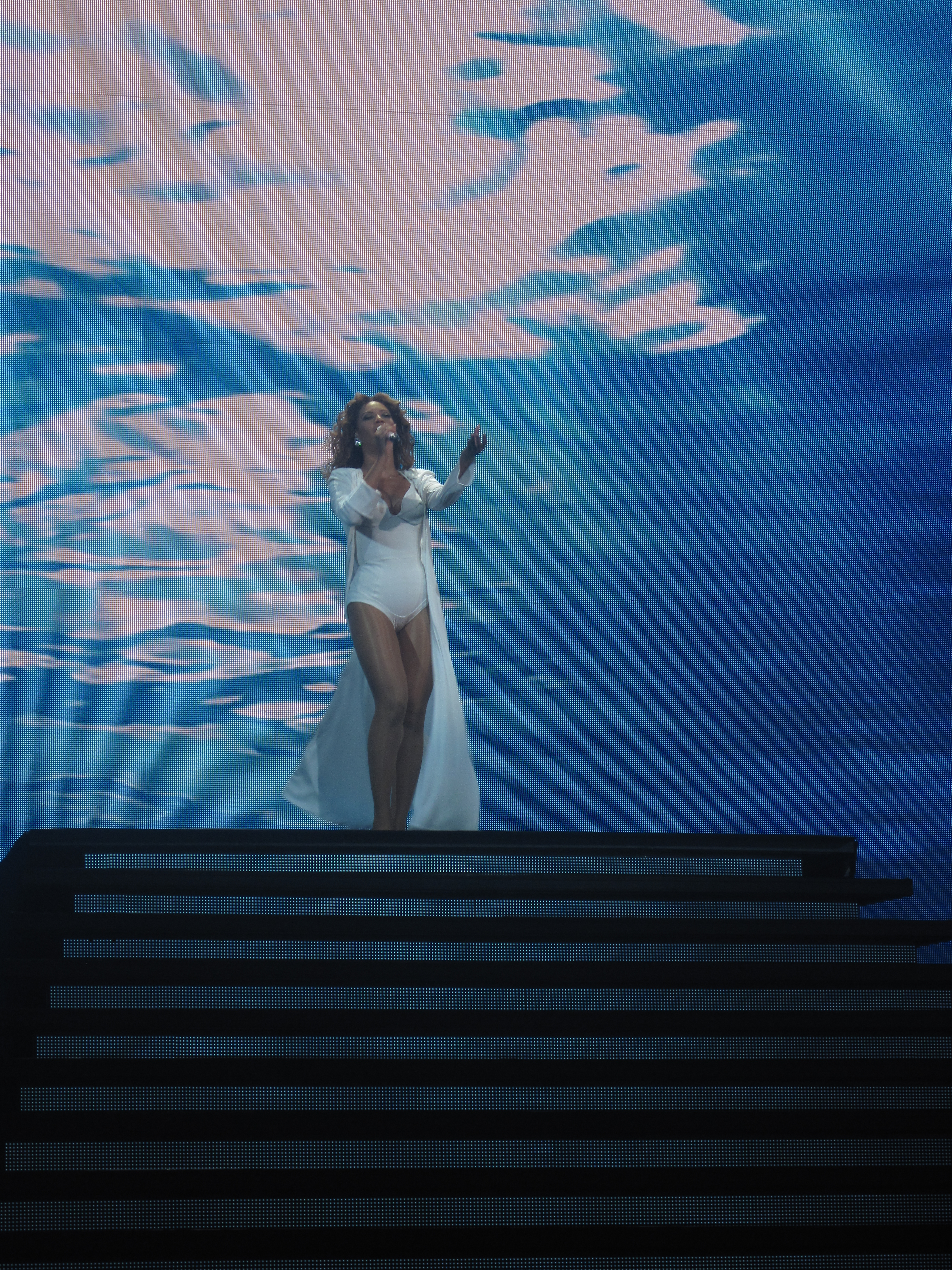 Beyoncé performing on The O2 in London.